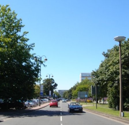 The Boulevard, Crawley, West Sussex, looking west from the eastern end.